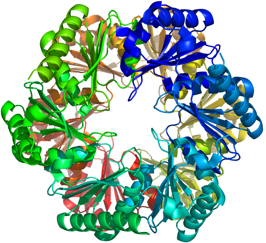 The three dimensional structure of an alpha-carboxysome shell protein: CsoS1D from Prochlorococcus marinus MED4